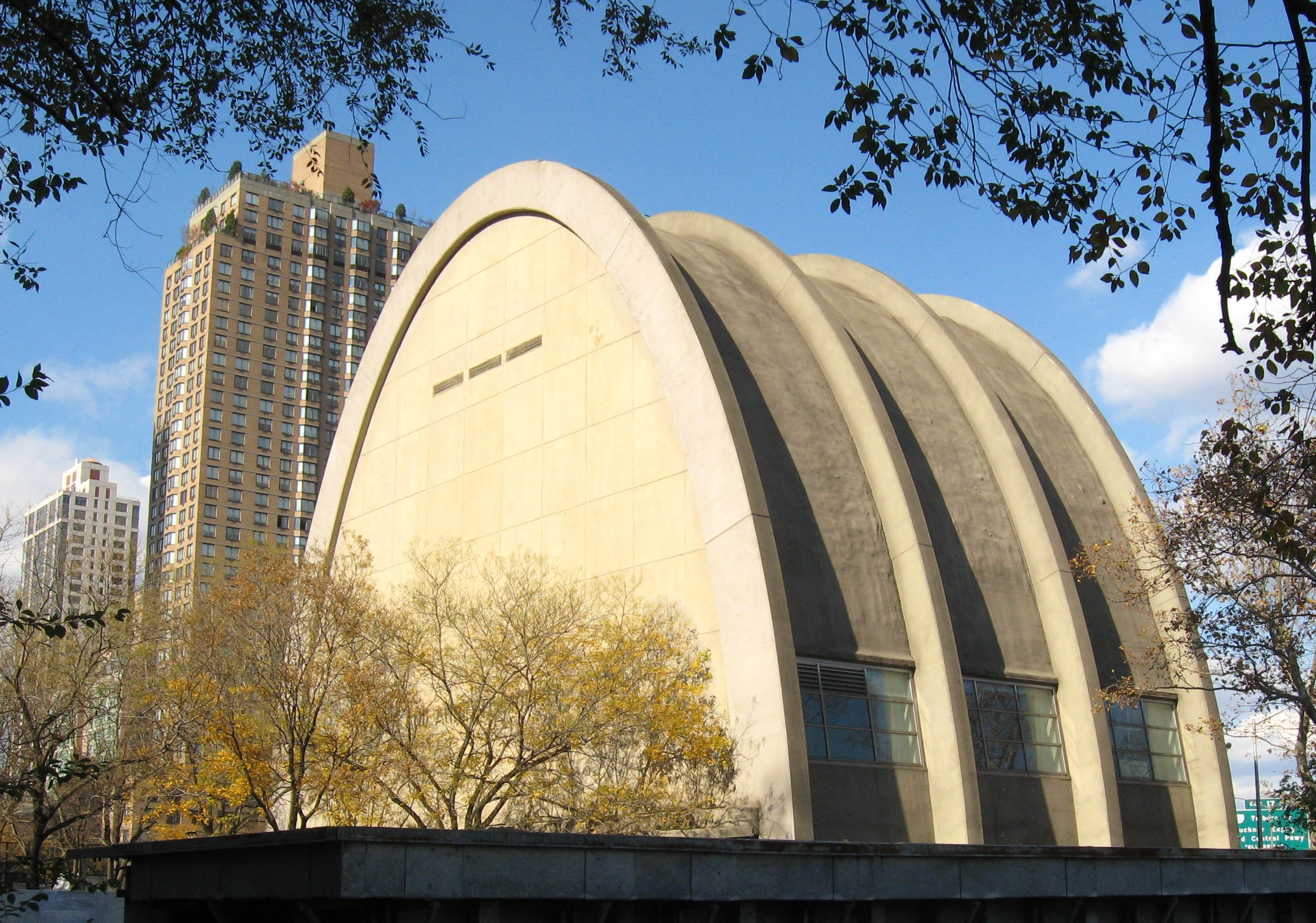 Looking north at former Municipal Asphalt Plant of Ely Jacques Kahn in the Upper East Side on a sunny early afternoon